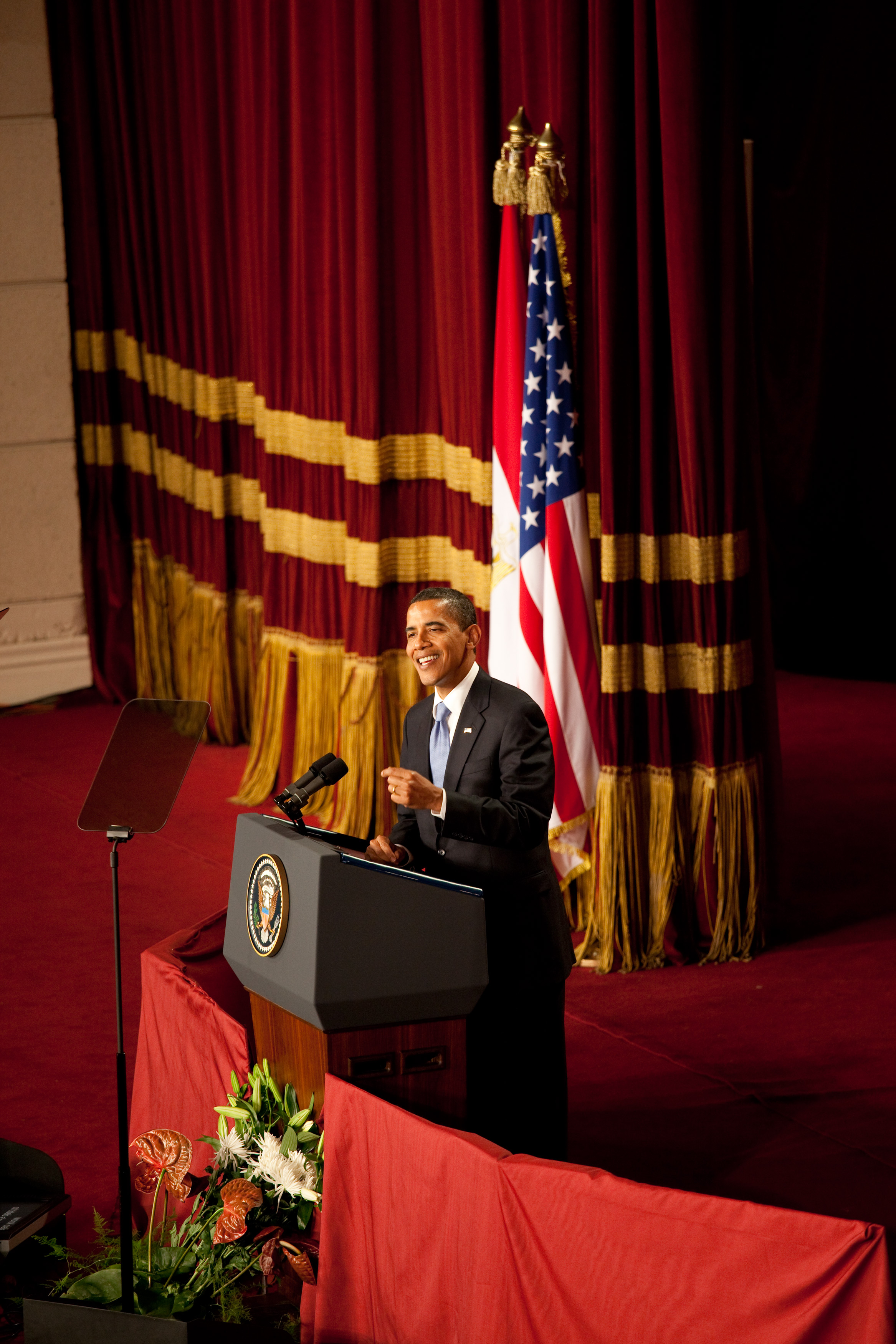 President Barack Obama speaks at Cairo University in Cairo, Thursday, June 4, 2009. In his speech, President Obama called for a 'new beginning between the United States and Muslims', declaring that 'this cycle of suspicion and discord must end'. (Official White House Photo by Pete Souza)